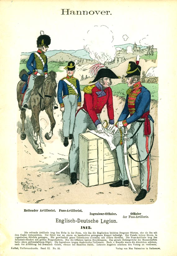 Hannover: Englisch-Deutsche Legion. Reitender Artillerist. Fuß-Artillerist. Ingenieur-Offizier. Offizier der Fuß-Artillerie. 1812